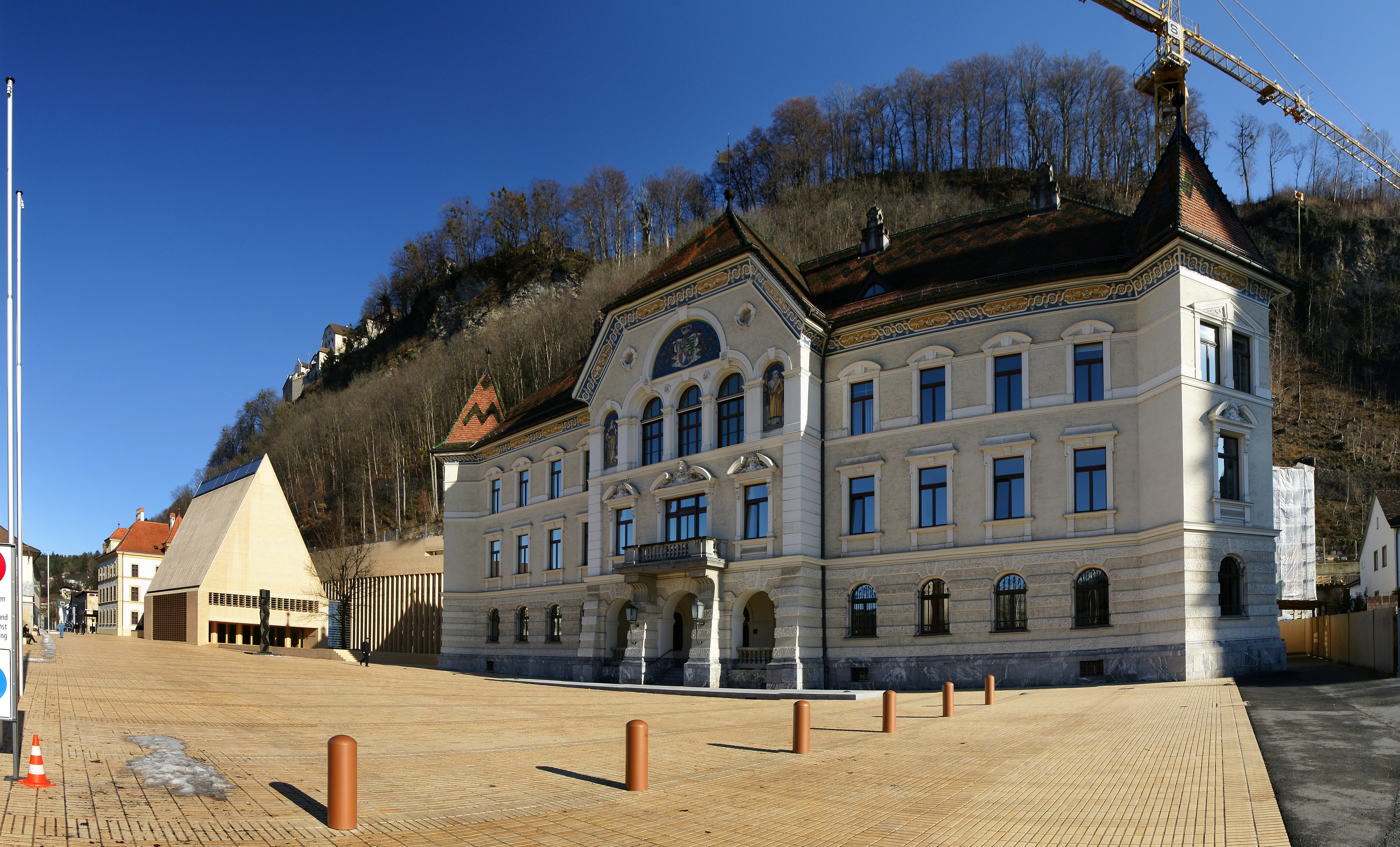 Regierungsgebäude (Government Building), Vaduz, Liechtenstein - Seat of Government and Parliament.